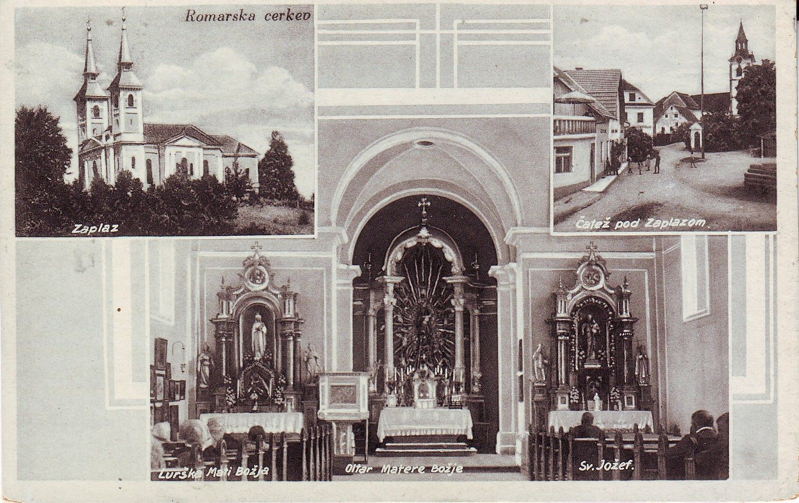 Postcard of Čatež, Trebnje.